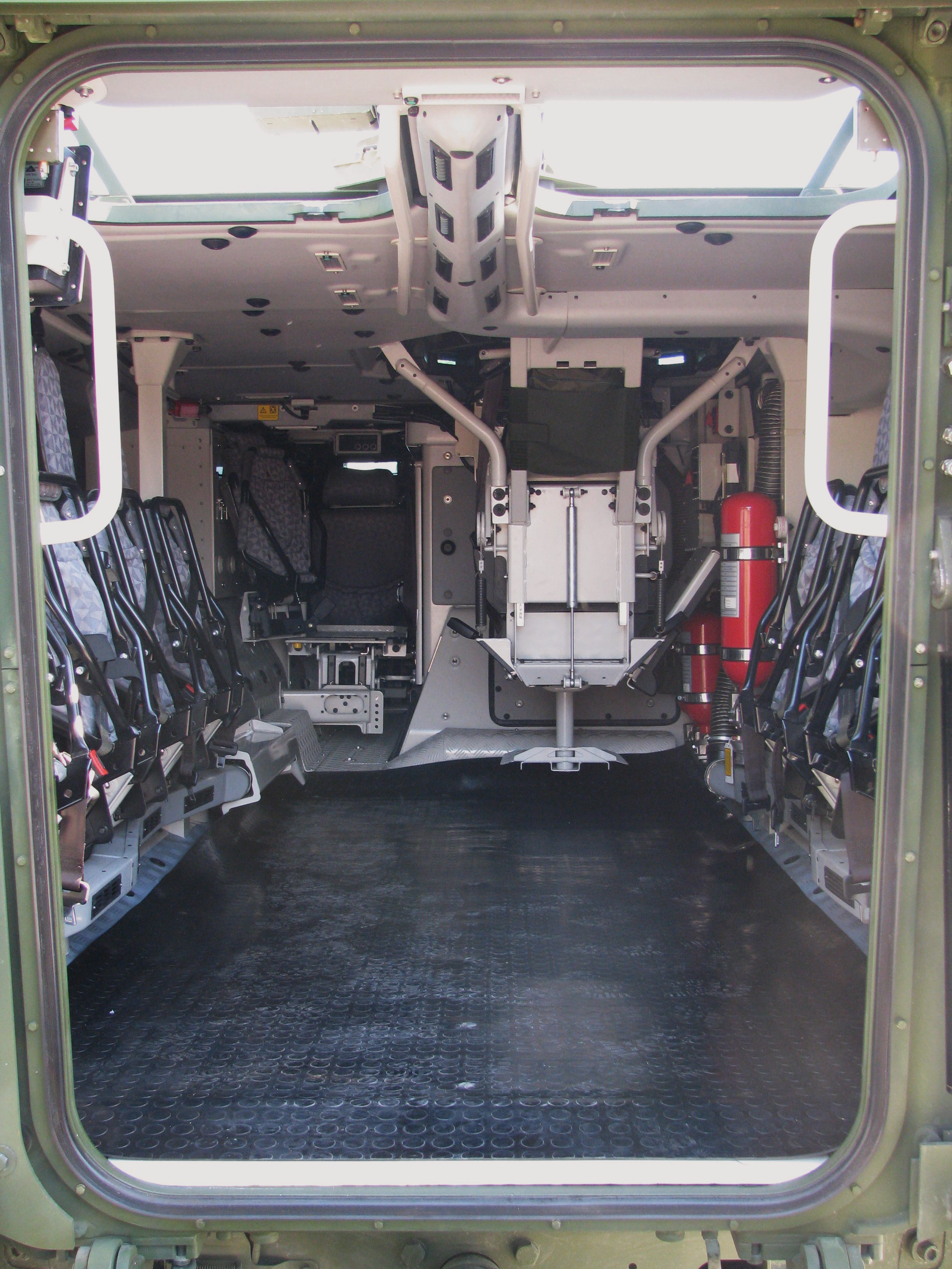 Croatian Patria AMV, Karlovac, 2009